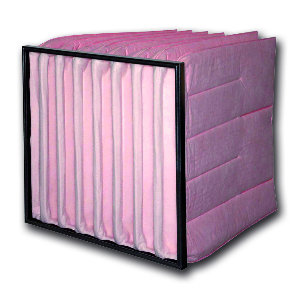 Fine filtration pocket filter; filter class F7 according to EN 779, three layer filter mat